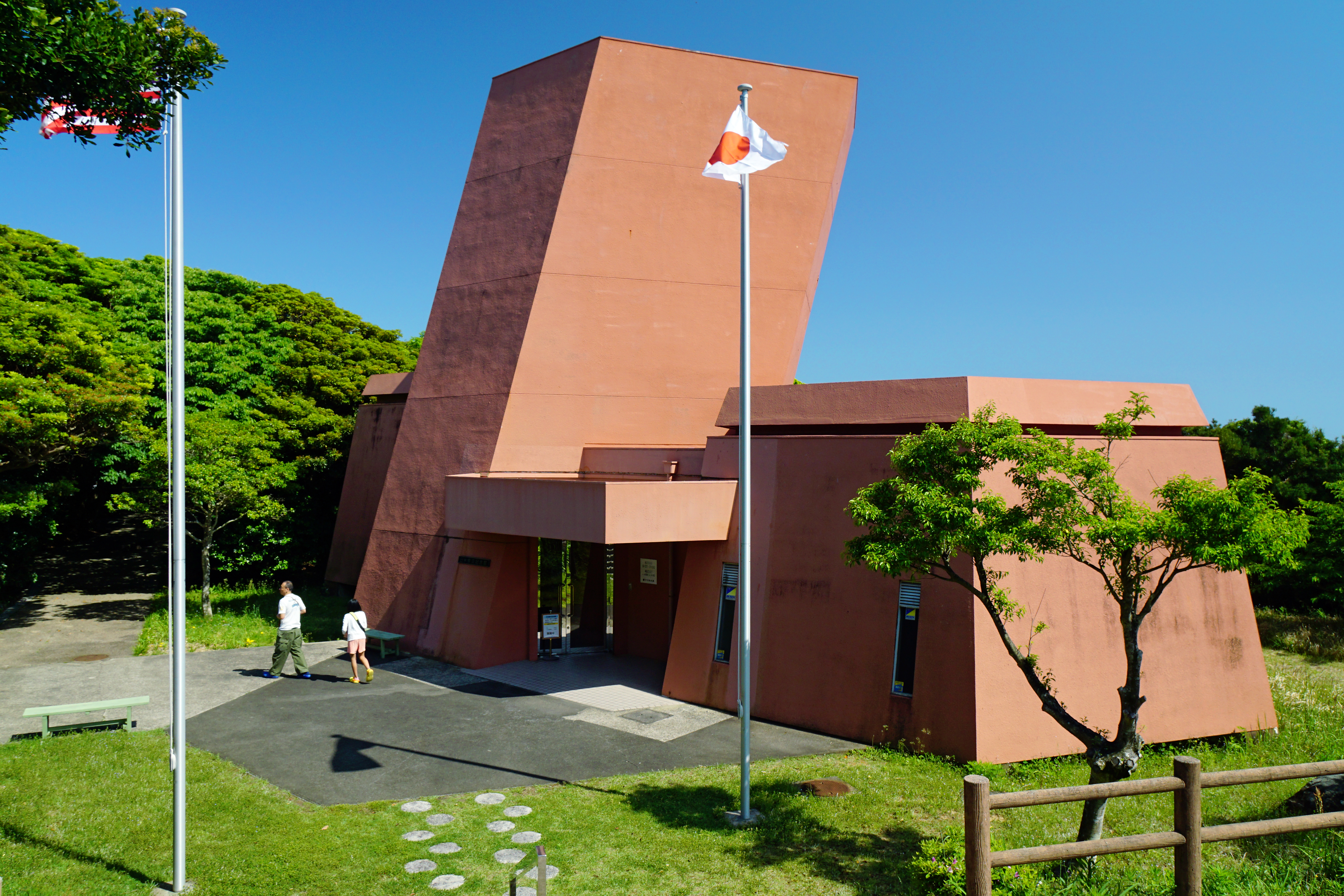 United_States–Japan_Friendship_Memorial_Museum in Kushimoto, Wakayama prefecture, Japan